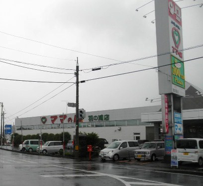 Mama's store Hanoura store